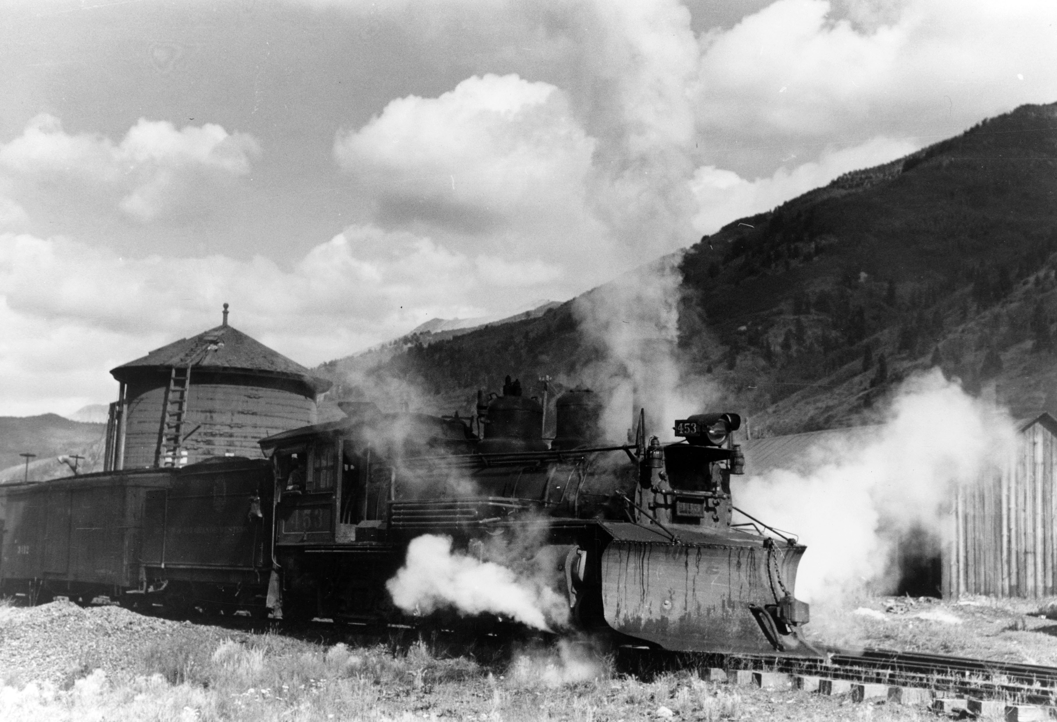 Locomotive #453 with snowplow of Denver & Rio Grande Western narrow gauge railroad, Telluride, Colorado